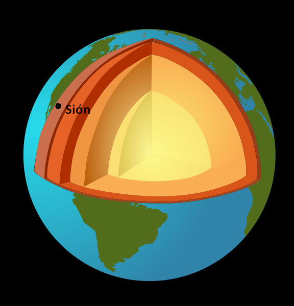 The location of Zion, the last human city on the planet Earth in the Matrix franchise.